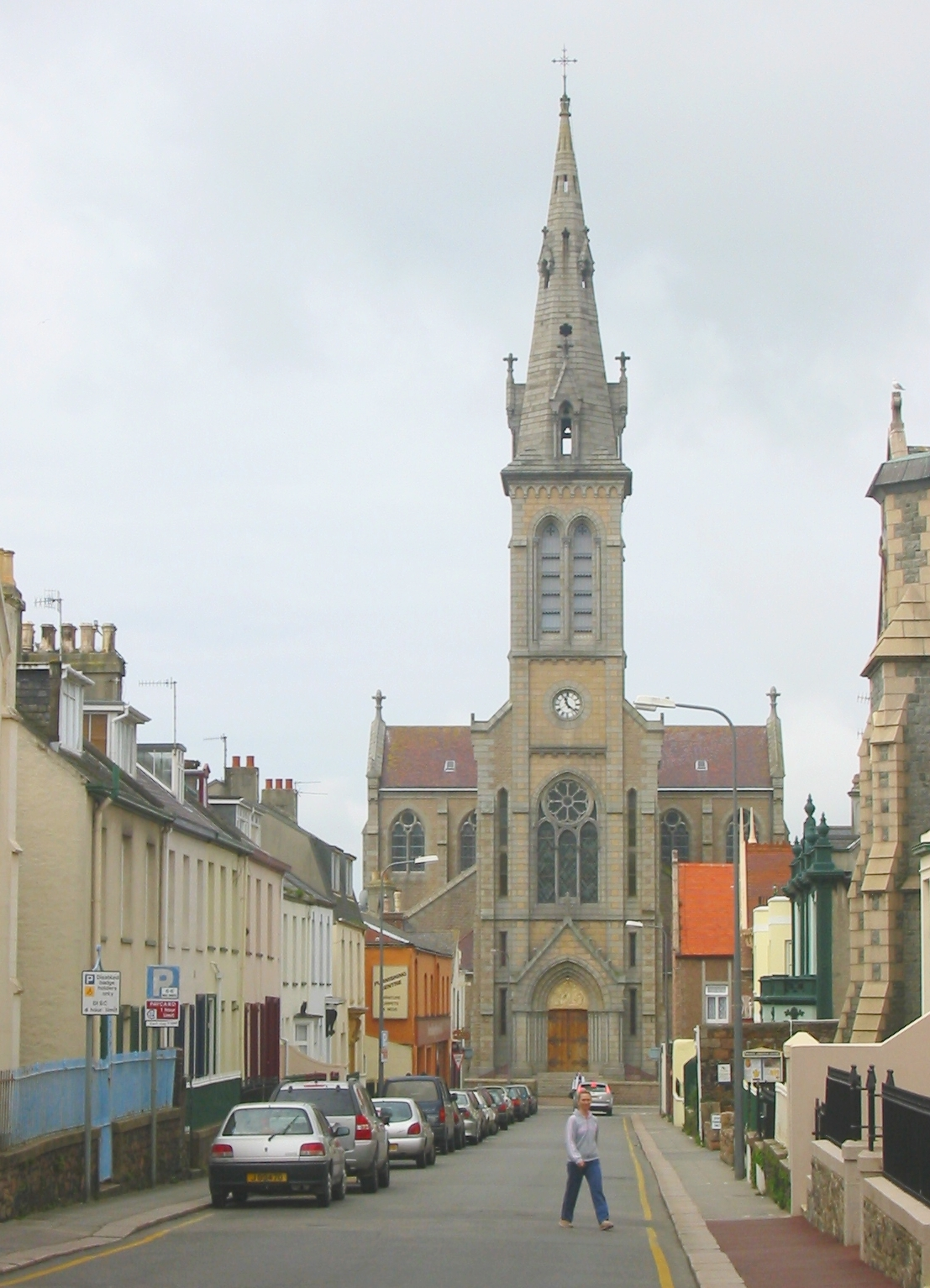 Saint Thomas Roman Catholic church, Saint Helier, Jersey, taken looking along Victoria Street